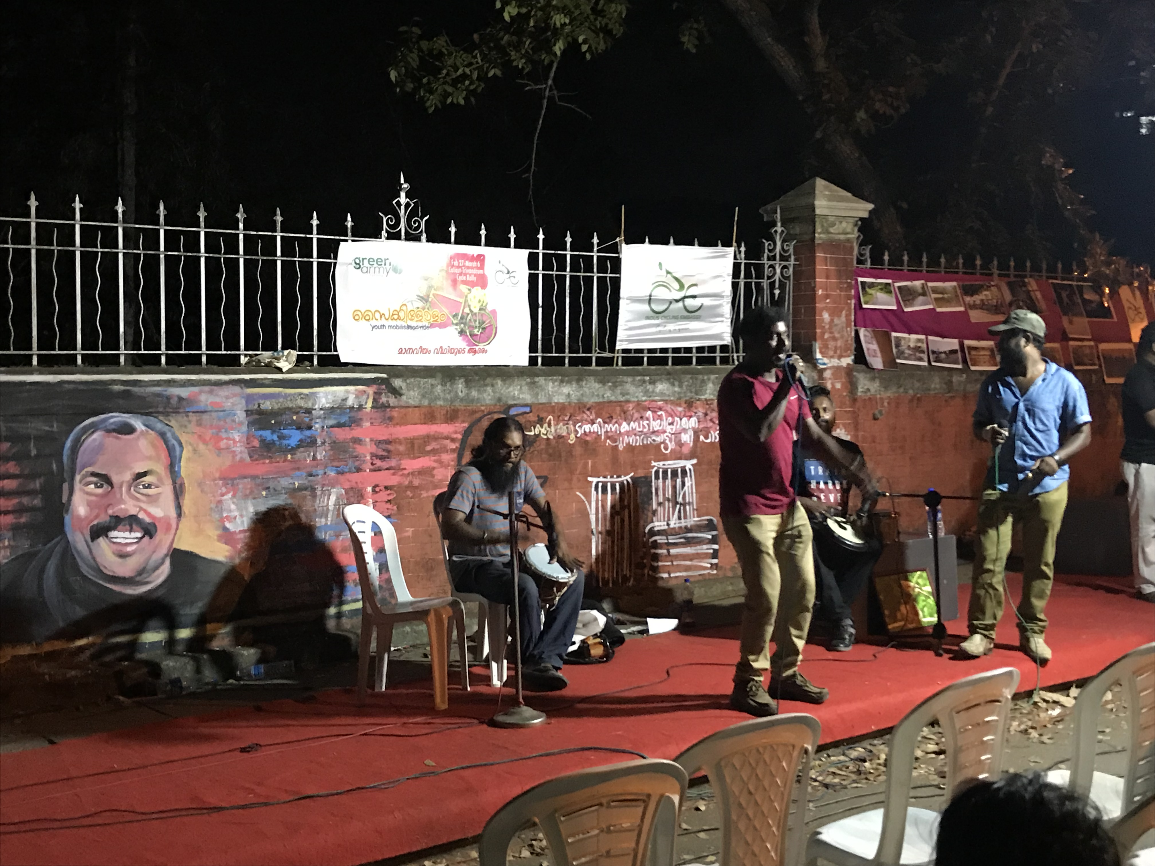 Scene from a concert in honor of Kalabhavan Mani held at Manaveeyam Veedhi, Thiruvananthapuram on occasion of his third death anniversary on 6 March 2019